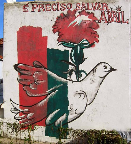 We must save April